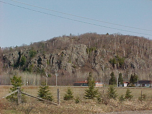 Canadian Shield rock outcrop near Gros-Cap, Prince Township